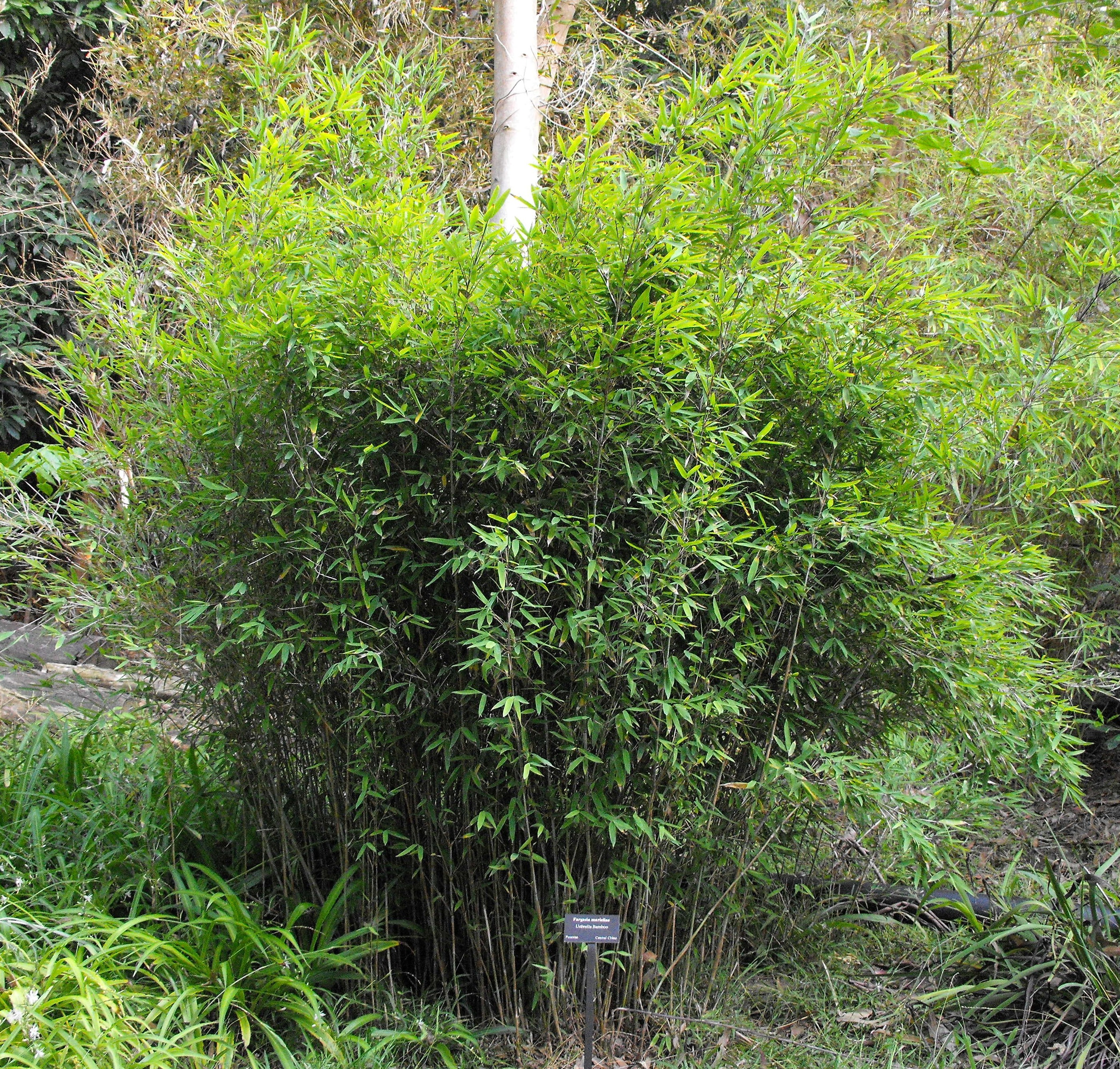 Fargesia murieliae at the San Diego Zoo, California, USA. Identified by sign.